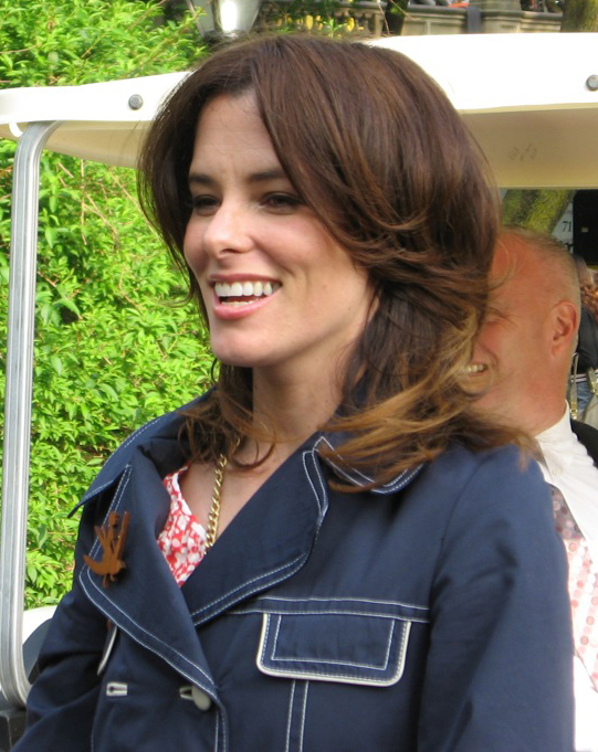 Parker Posey at Fox Upfronts 2007.